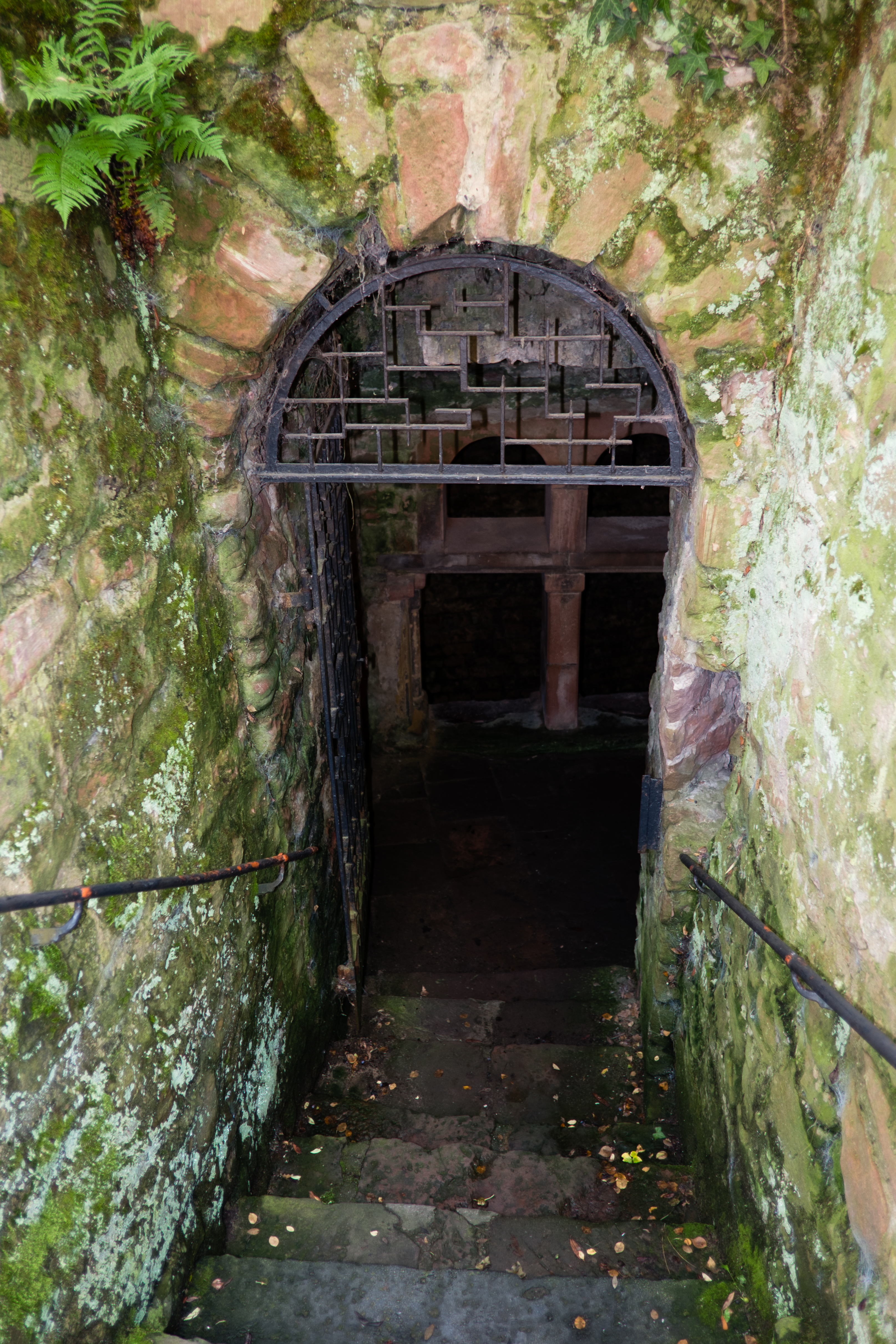 Mikvah under the Women's Synagogue Worms, Rhineland-Palatinate, Germany